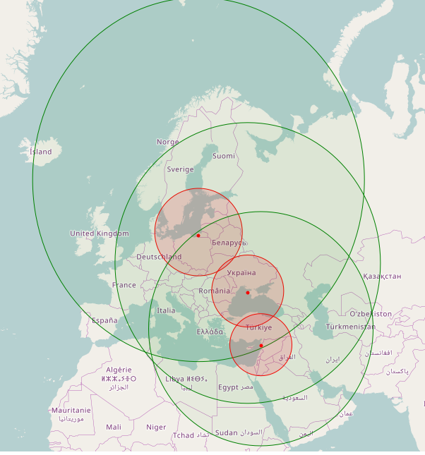 Range of Iskander ballistic and cruise missiles when deployed to Kaliningrad oblast, annexed Crimea and the Khmeimim airbase (Basel al-Assad international airport). red: 700 km circle for ballistic missile range (based on expert estimates, official range 500 is believed to be too incorrect) green: 2500 km circle for SSC-8/9М729 cruise missile range estimates (based on Kalibr missile range) Geographic base: OpenStreetMaps tiles layer. Rendering: Leaflet, an open-source JavaScript library for interactive maps. Circles appear to have distorted shape because of transformations by the geographic projection.